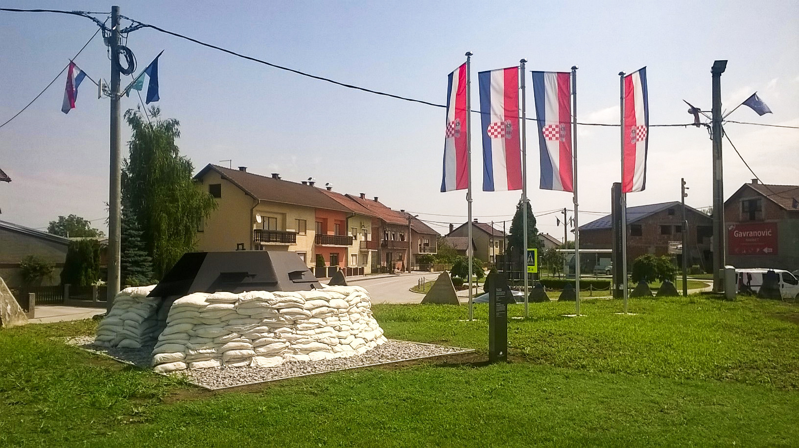 An example of the rare light bunker created by Mladen Krupa in 1991 during the Homeland War of Croatia conserved and presented at the Homeland War Museum in Karlovac, Croatia.